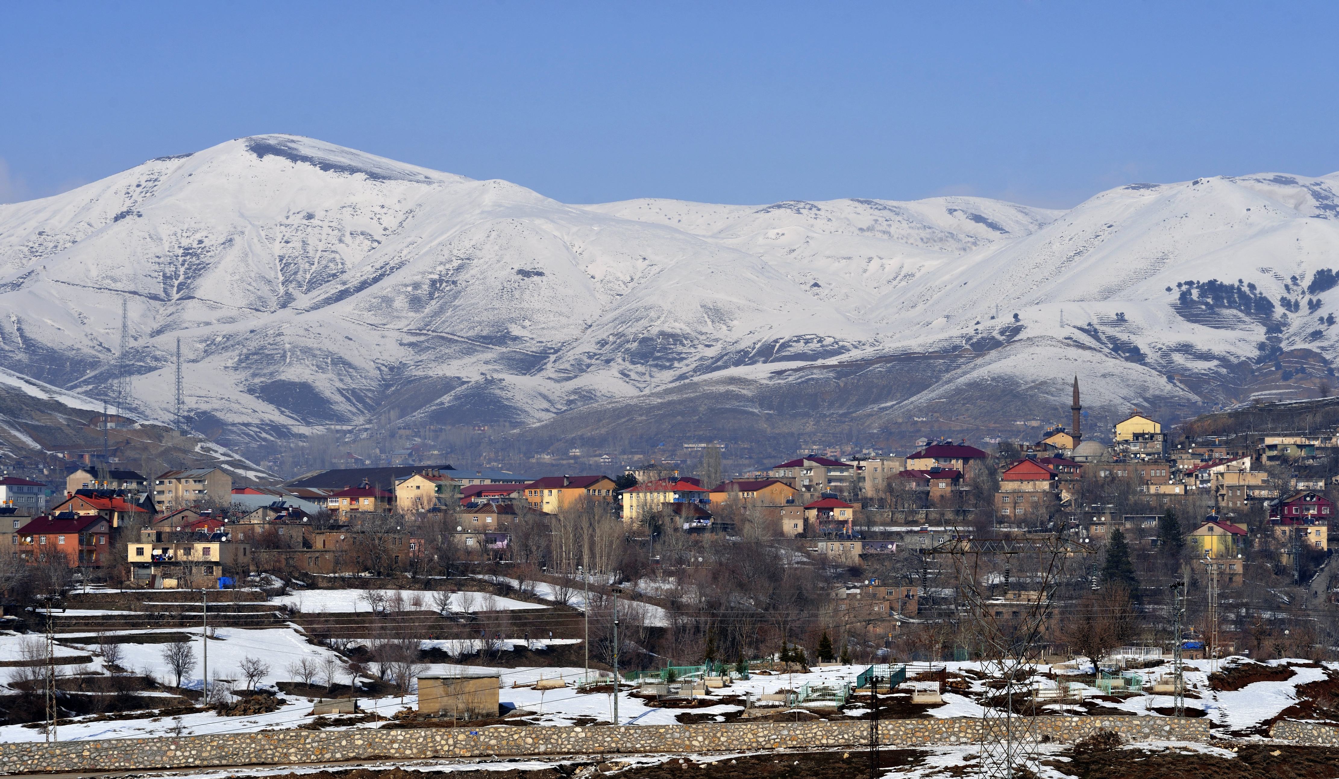 Kurdish village